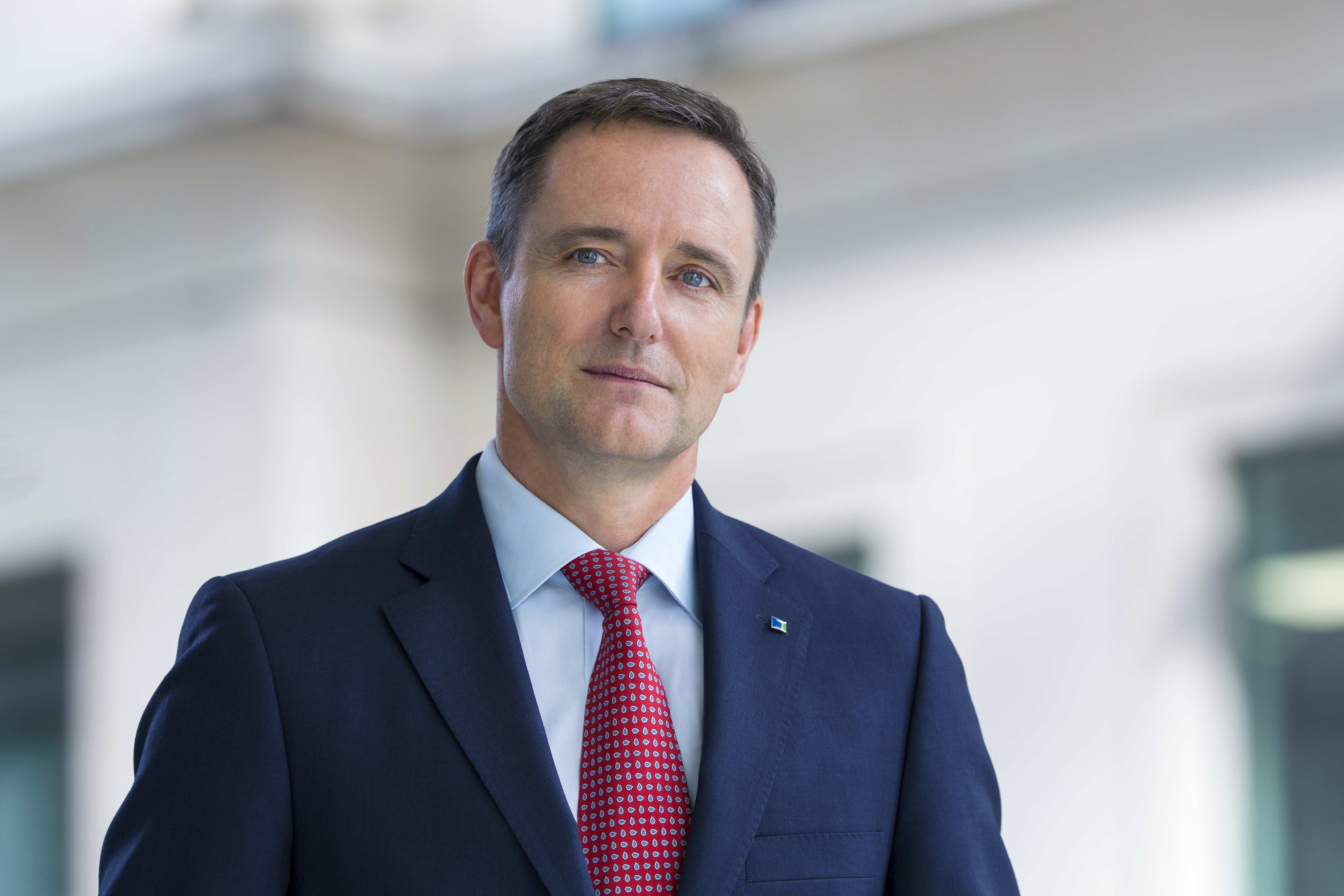 Head and shoulders photo of Aviva CEO Mark Wilson